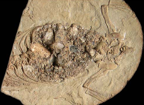 Cluster of gastroliths with variable grain sizes in the aquatic tangasaurid Hovasaurus from the Upper Permian Sakamena Formation of southern Madagascar (NHMS WP1499).